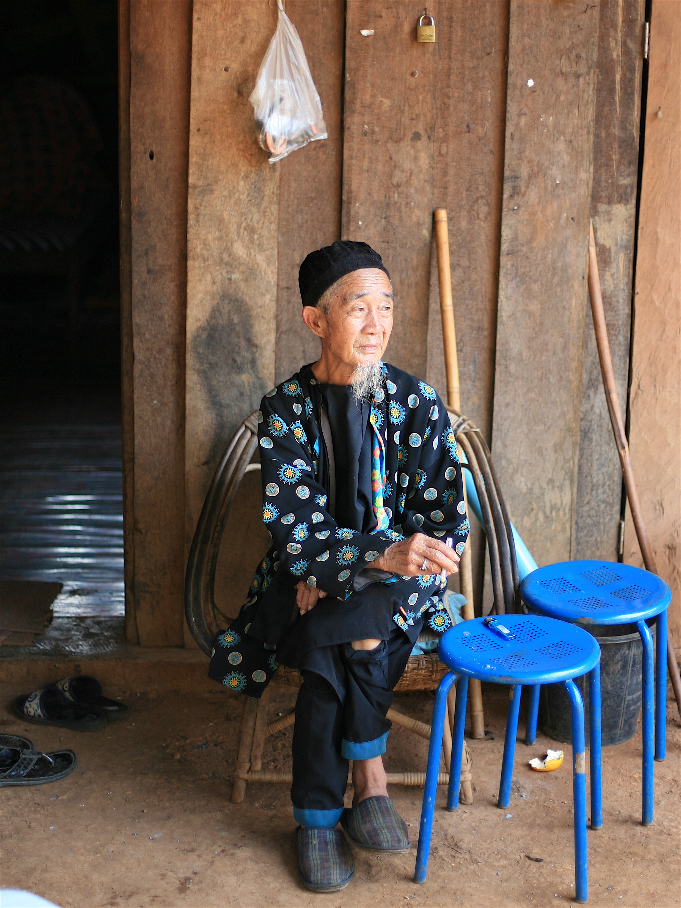 The Lisu people are one of the six major hill tribes in Thailand.